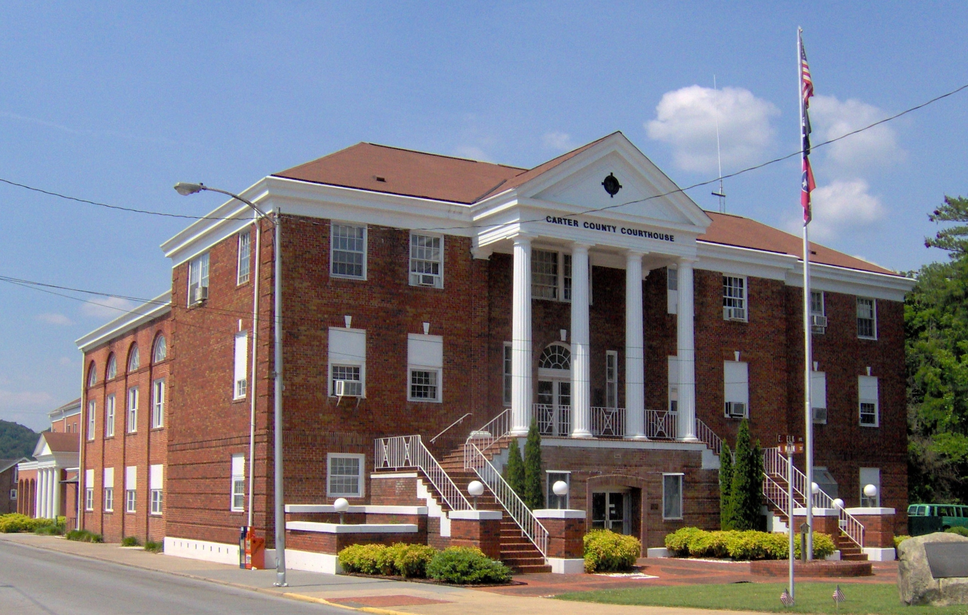 Carter County Courthouse in Elizabethton, in the U.S. state of Tennessee. The courthouse is listed on the National Register of Historic Places as part of the Elizabethton Historic District.